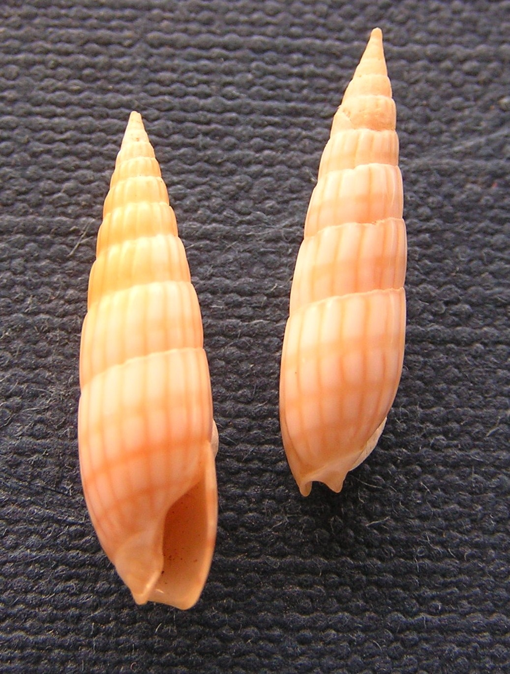 Hastula solida (Deshayes, 1857); family Terebridae; Guam